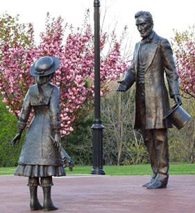 Statue of Grace Bedell and Abraham Lincoln, Westfield, New York